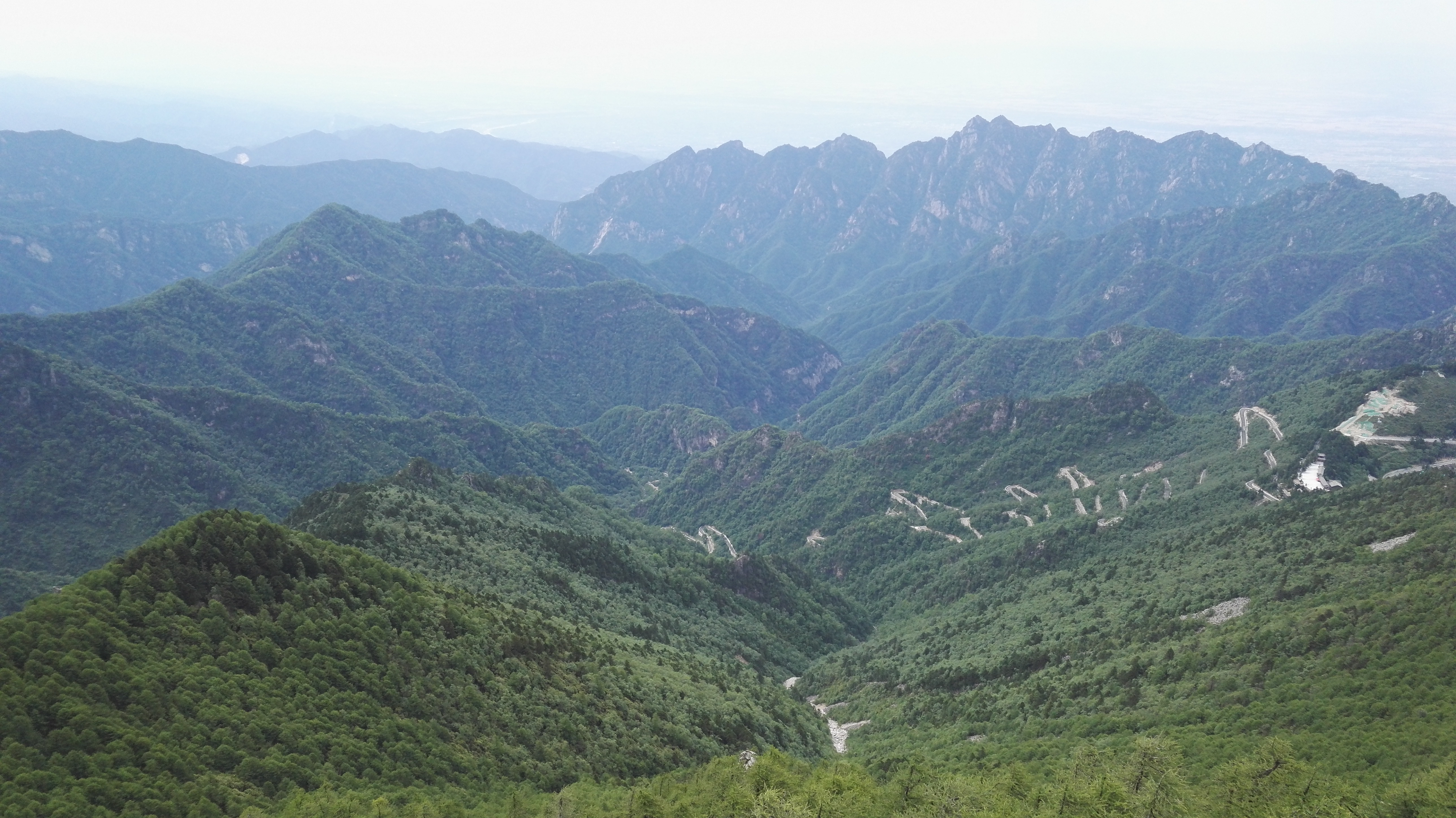 Overlooking the winding road at the Mountain Taibai.